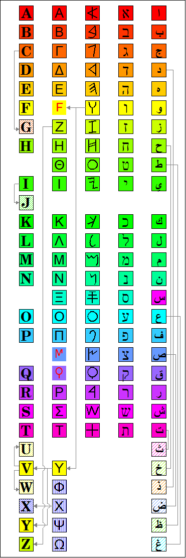 From left to right: Latin, Greek, Phoenician, Hebrew, Arabic. Note: The Arabic letter sin س does not actually derive from Aramaic samekh/semkath ס ; both the Arabic letters س and ش derive from Aramaic shin ש .